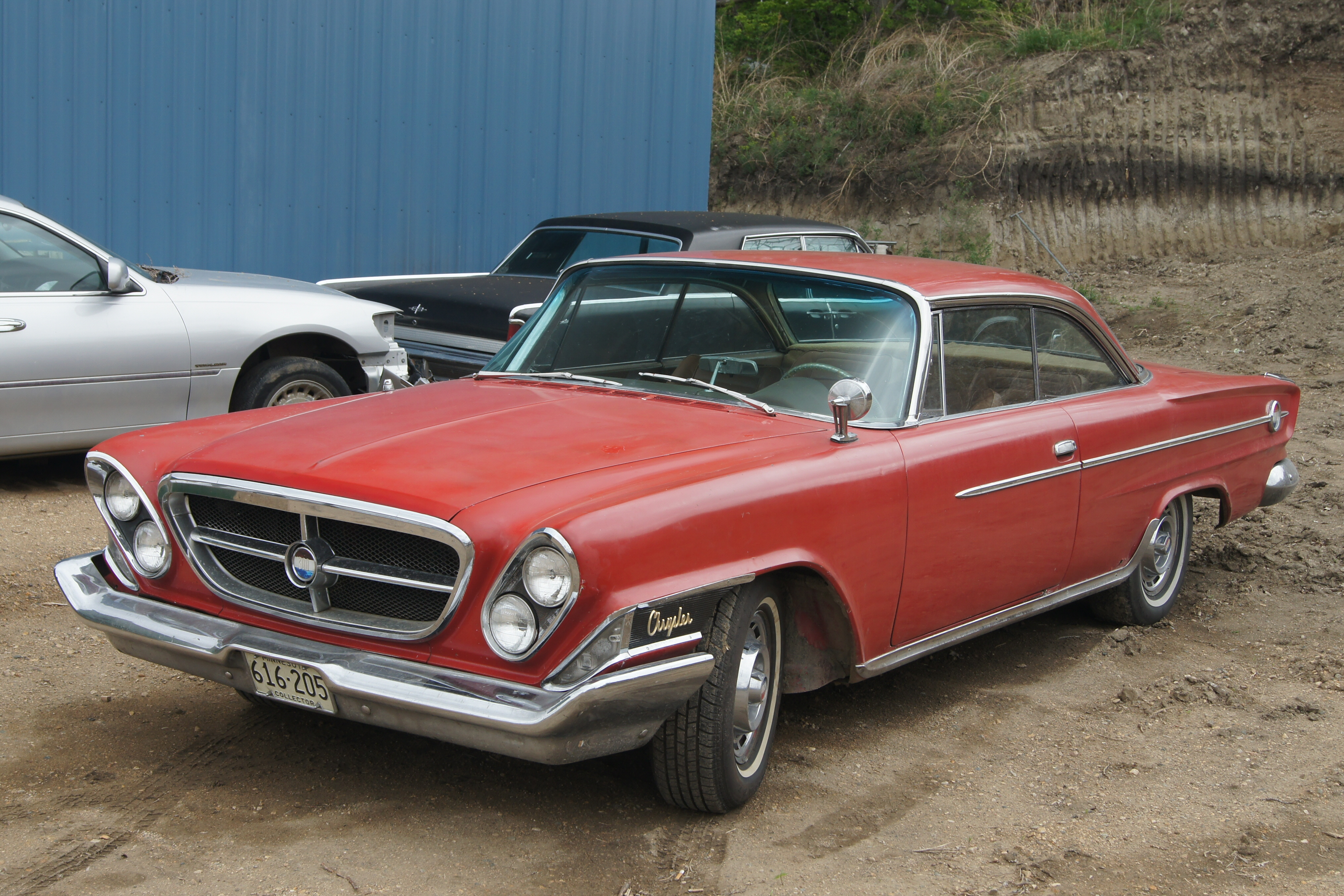 Click here for more car pictures at my Flickr site.